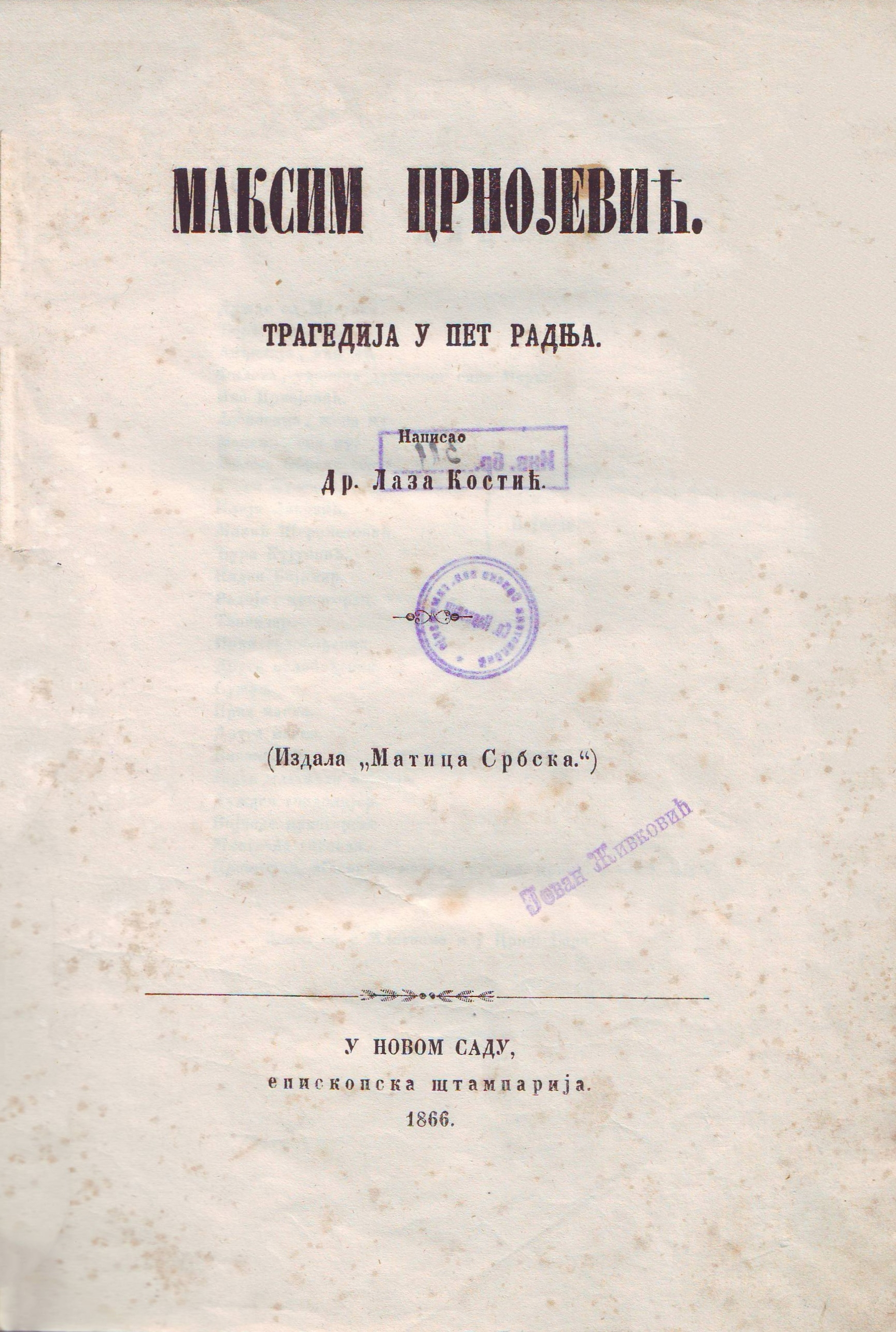 Cover of tragedy Maksim Crnojević (1866) by Laza Kostić. Srpski (latinica): Naslovna strana tragedije Maksim Crnojević (1866) Laze Kostića.